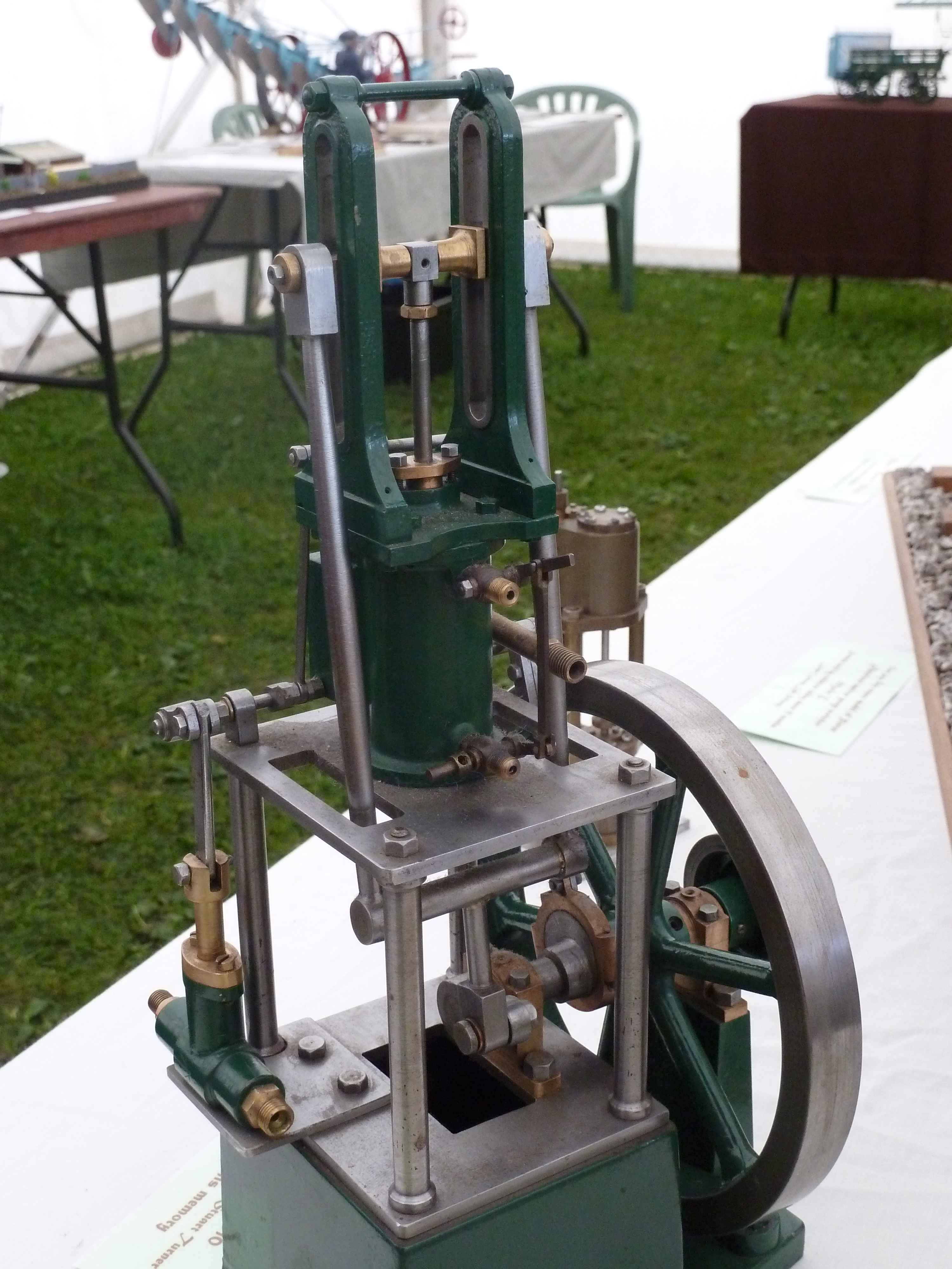 Coombes' table engine, from the Stuart Turner plans & castings Abergavenny steam rally, 2012.